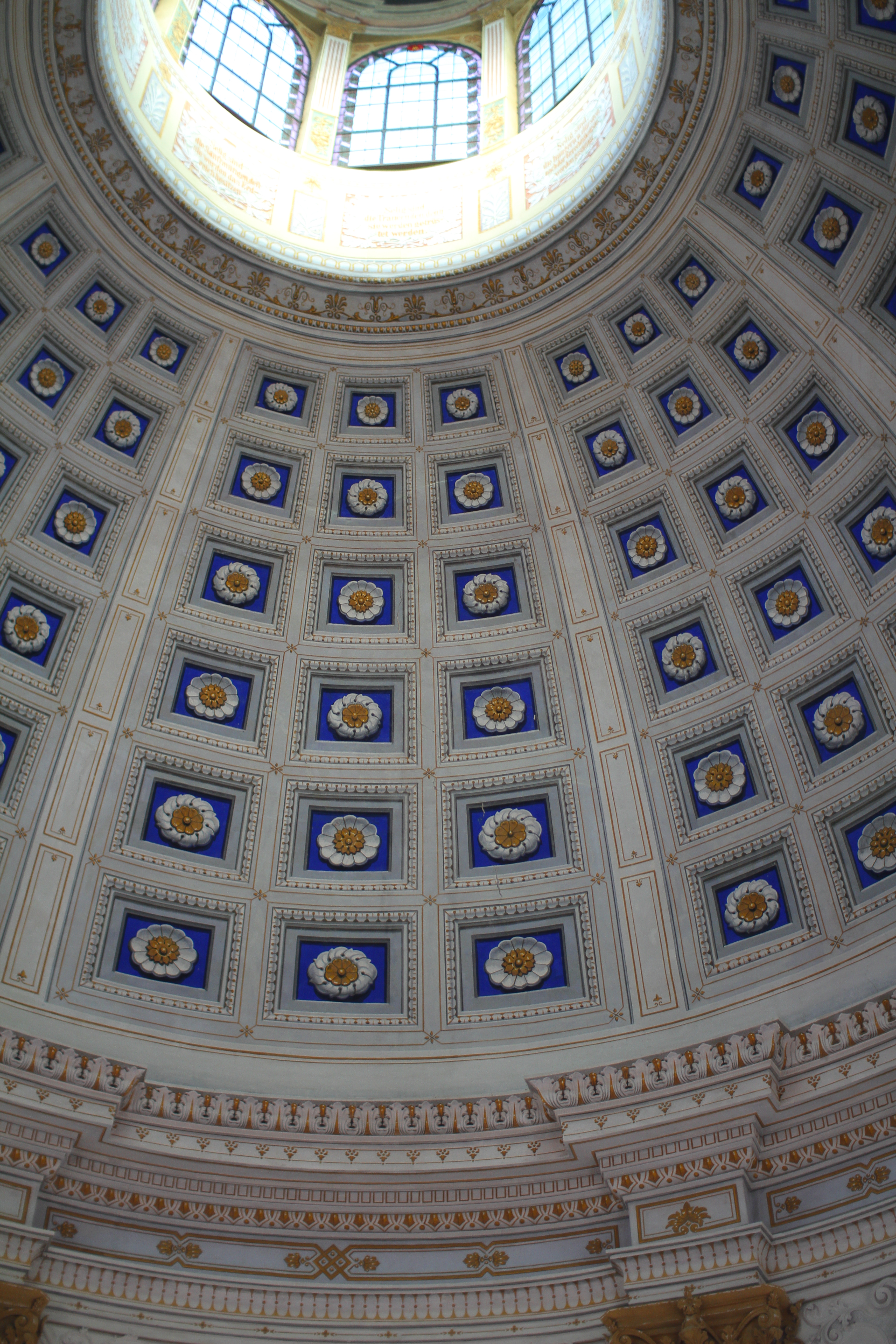 Stefansfeld-Kapelle in Stefansfeld nearby Salem at Lake Constance in the german District Baden-Württemberg